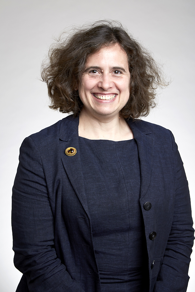 Anne Ferguson-Smith FRS FMedSci is Arthur Balfour Professor of Genetics, Head of the Department of Genetics at the University of Cambridge and a Fellow of Darwin College, Cambridge. Attribution: The Royal Society